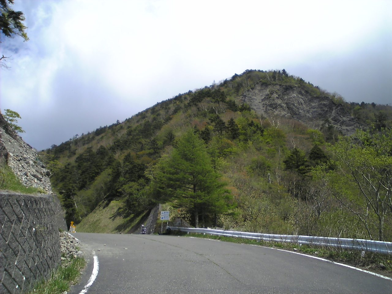 Yanbushi Pass (Yanbushi-toge) on the border of Yamanashi and Shizuoka Prefectures, Japan